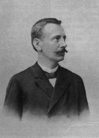 Portrait of Sándor Rejtő